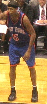 Mo Williams of the Milwaukee Bucks attempts a free throw.